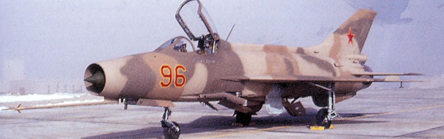 4477th Test and Evaluation Squadron J-7B Red 96